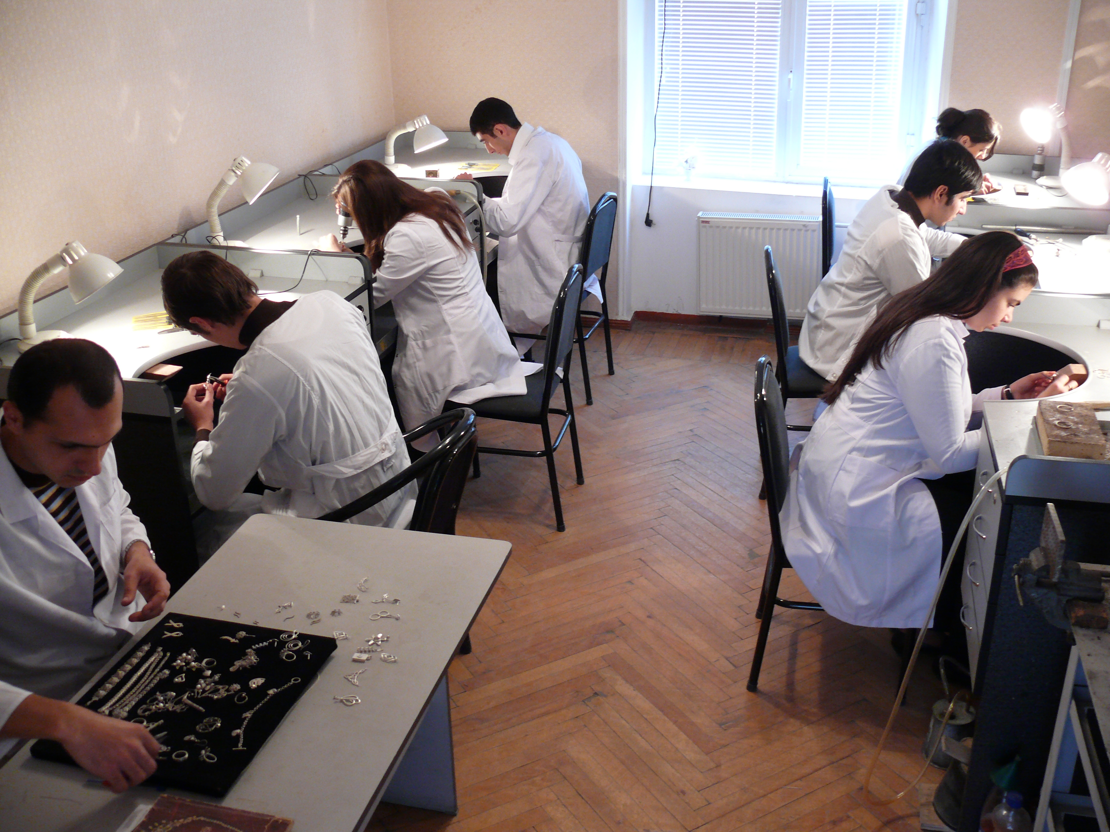 Khazar University jewelry arts class in session